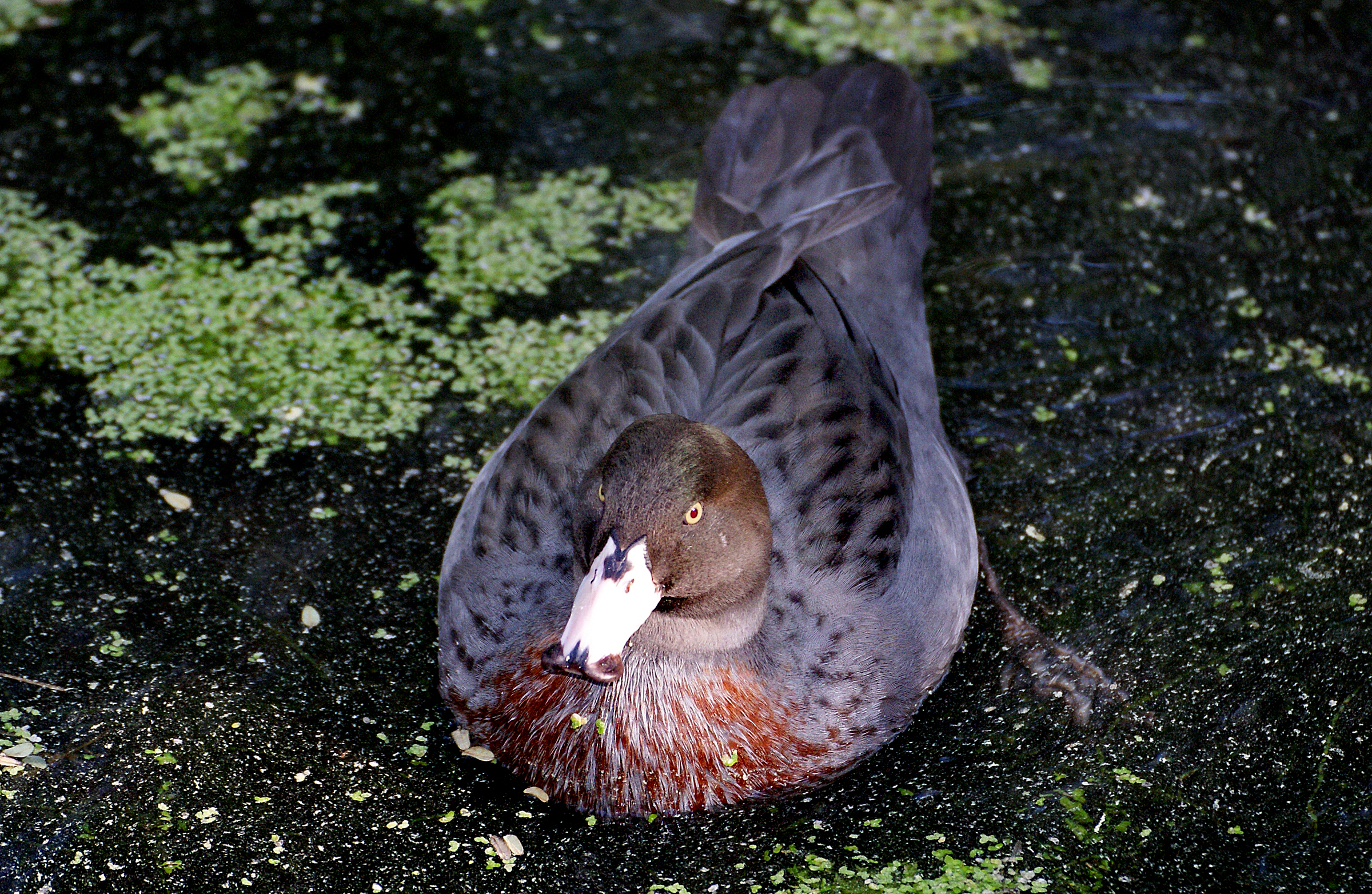 The blue duck or whio is an iconic species of clear fast-flowing rivers, now mostly confined to high altitude segments of rivers in North and South Island mountain regions. Nowhere common, it lives at low densities and its shrill “whio” whistle above the noise of turbulent waters will usher in a long-remembered encounter. Adults of both sexes are alike, being uniformly slate blue-grey with chestnut spotting on the breast, a pale grey bill with a conspicuously expanded black flap at its tip, dark grey legs and feet, and yellow eyes. During aggressive interactions, or when birds are suddenly frightened, the bill epithelium is flushed with blood, and appears distinctly pink. Males are larger than females, have more breast spotting and more prominent greenish iridescence on the head, neck and back. Immatures are similar to the adults but from late summer to about August their eye is dark, their bill a dark grey and their chest spotting sparse and dark.